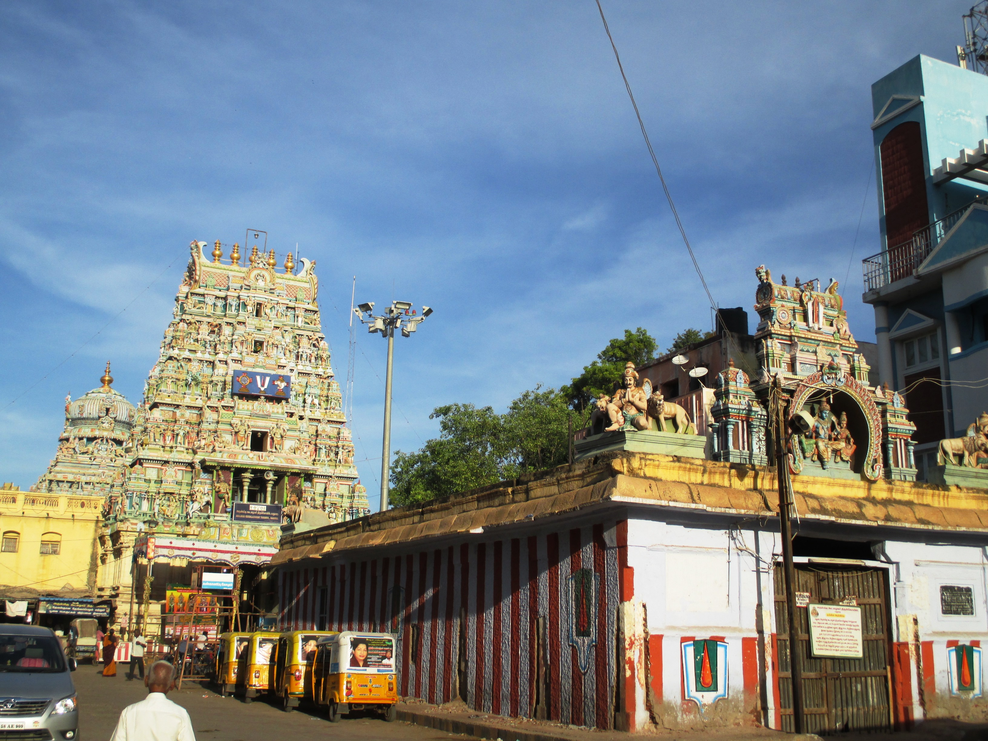 Koodazhagar